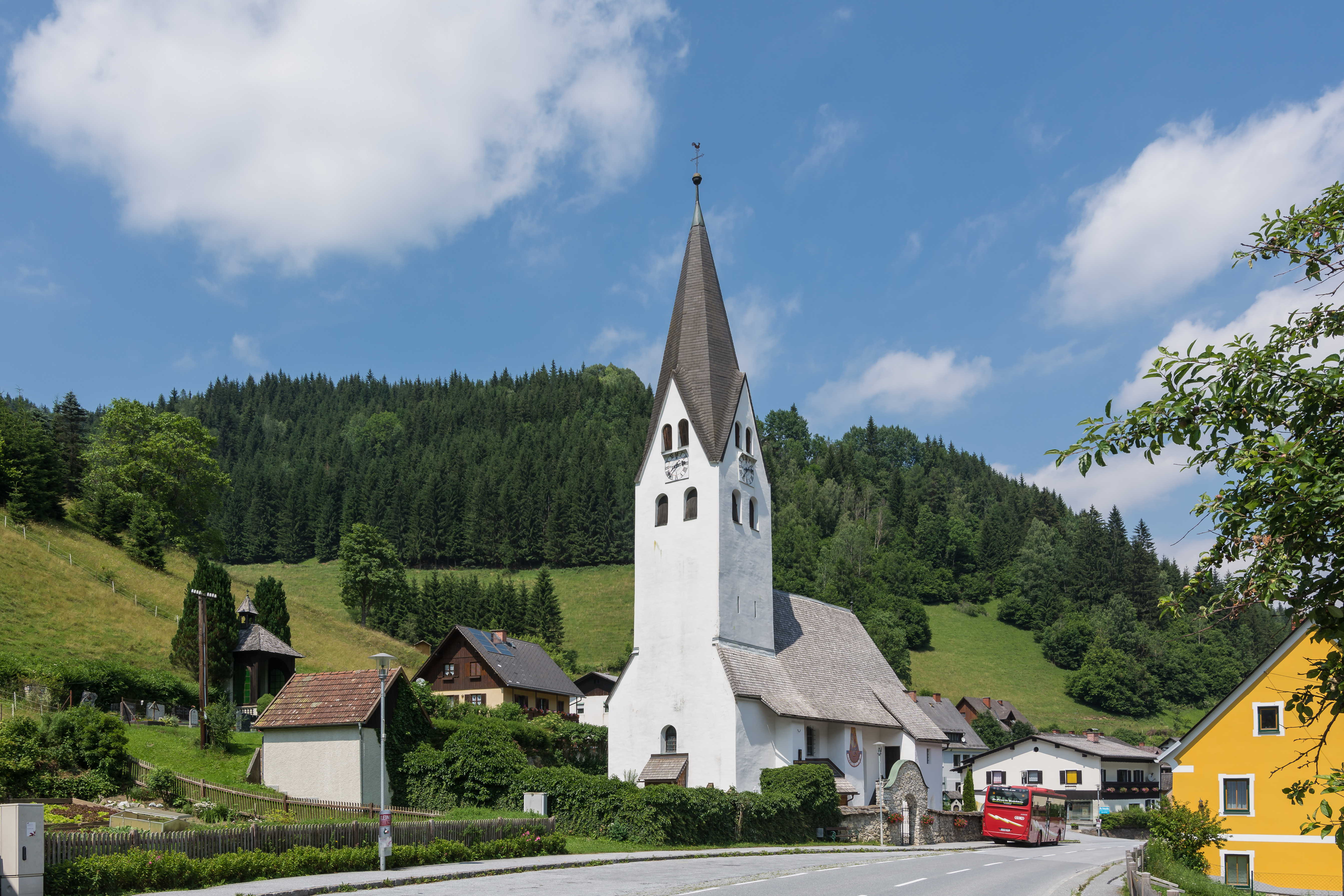 Catholic parish church of saints Peter and Paul with cemetery in the village Salla, community Maria Lankowitz, Styria